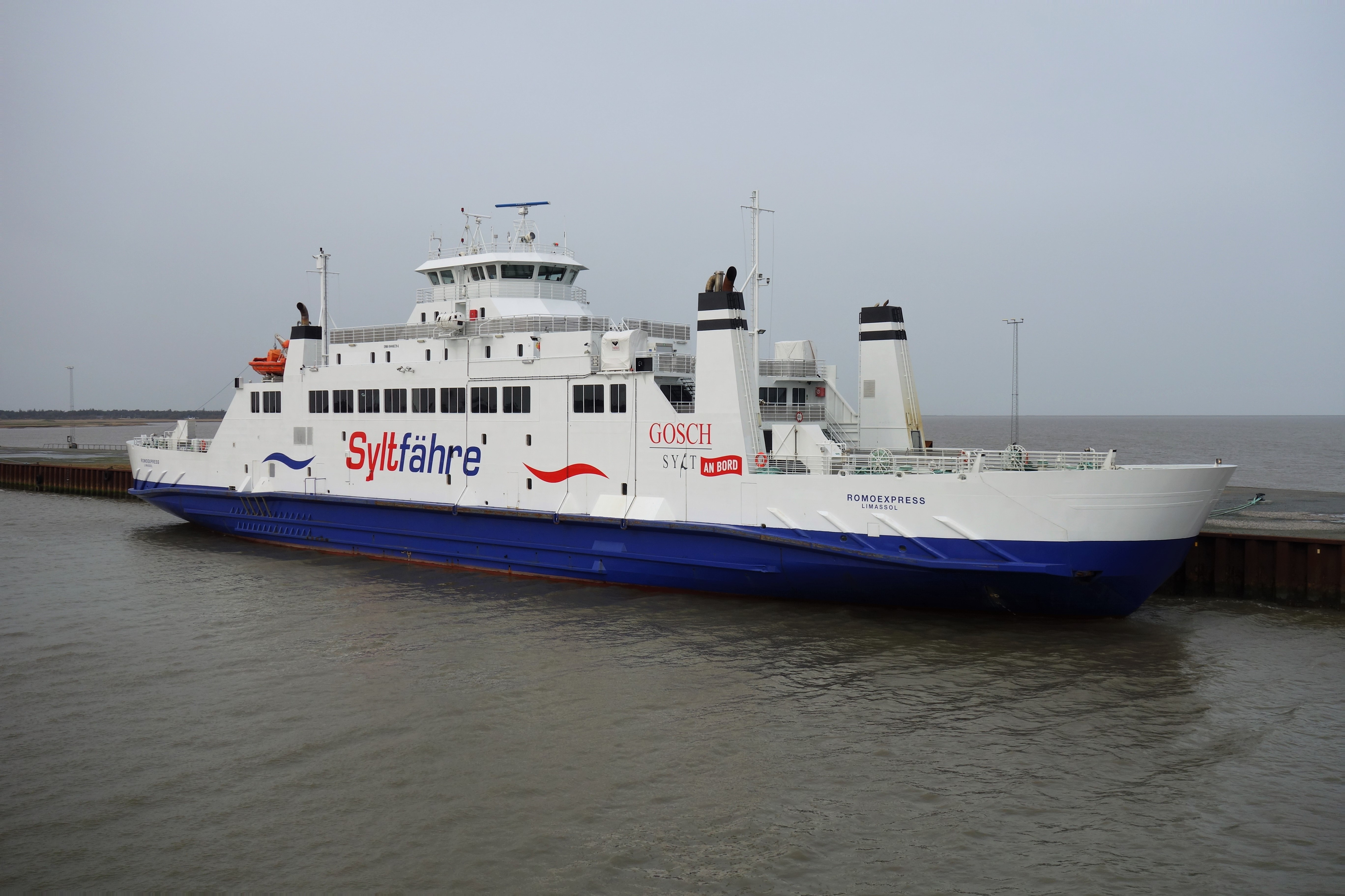 The „new“ Syltferry Romoexpress moored at Stormkaj in Havneby harbour